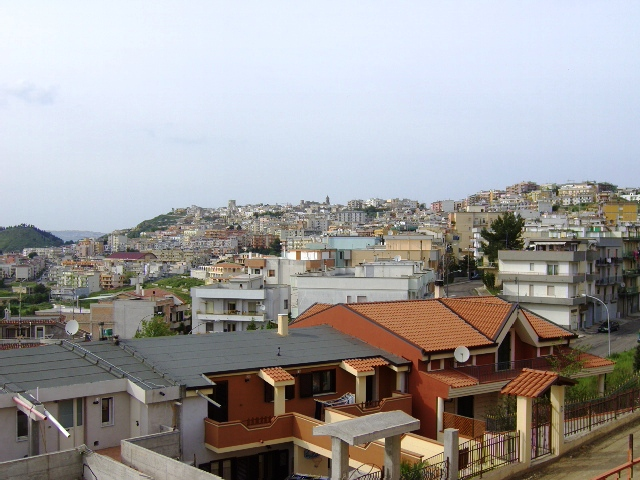 View of the town